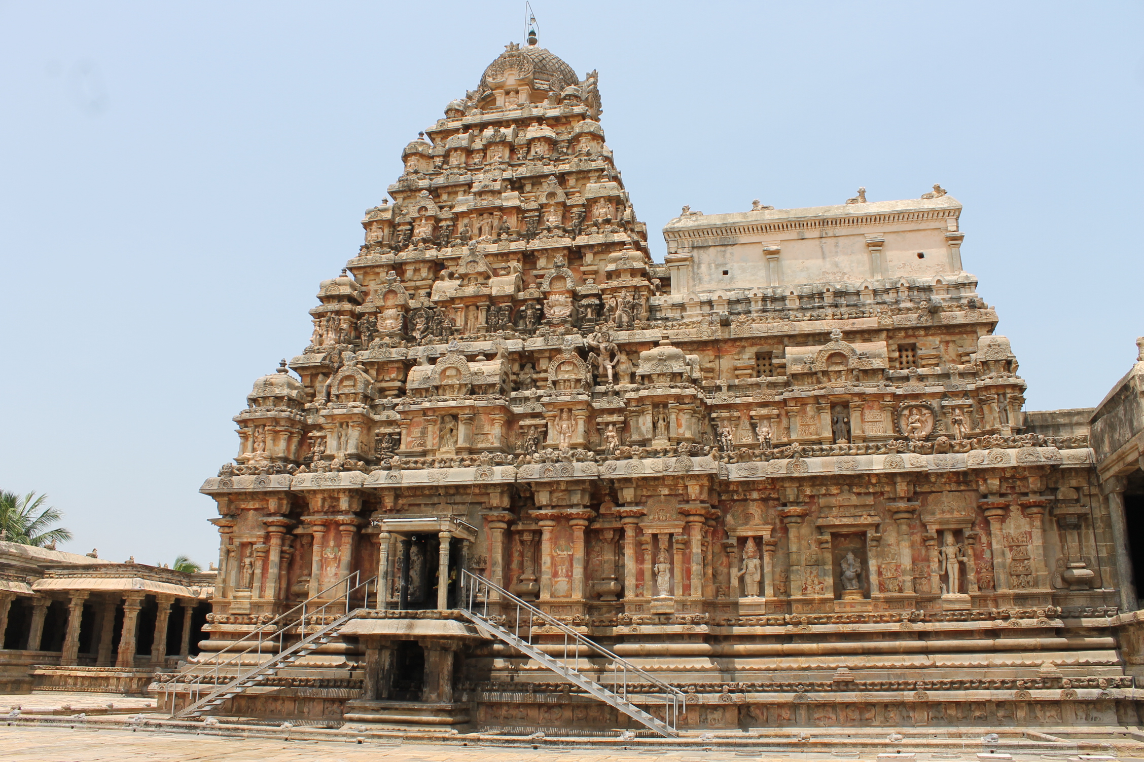 "A view of Airavatesvara Temple". Location: Chatram, Darasuram, near Kumbakonam, Thanjavur District, Tamil Nadu, India.